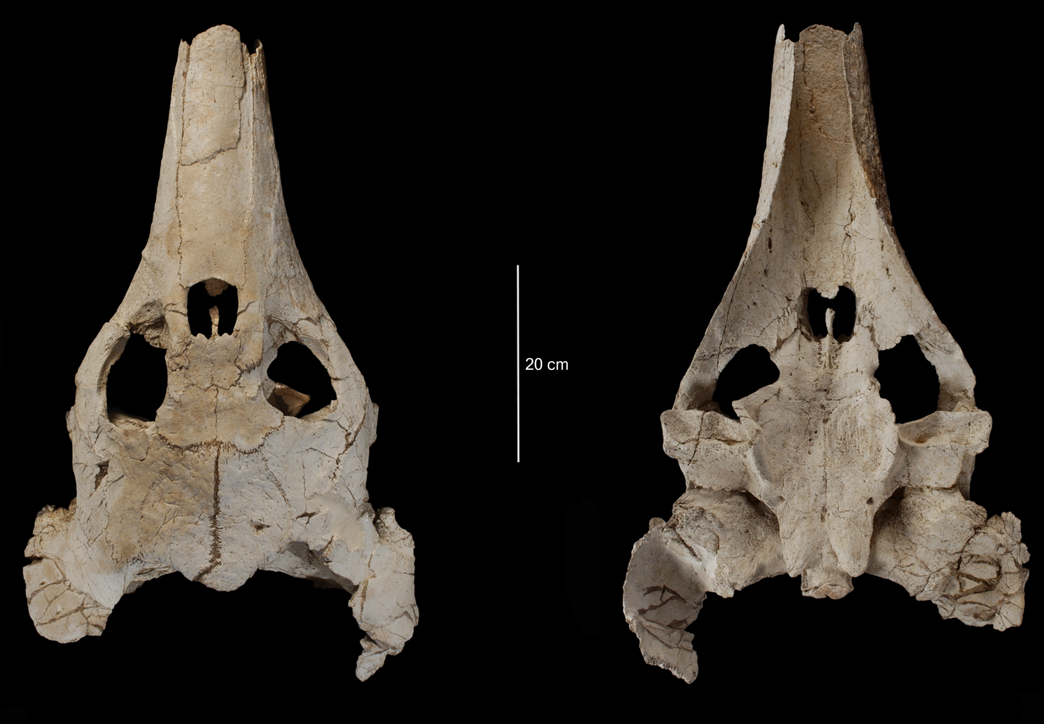 Ocepechelon, Skull of Ocepechelon bouyai (OCP DEK/GE 516, Holotype), in dorsal (left) and ventral (right) views; Phosphates (Upper Level III, Upper Maastrichtian, uppermost Cretaceous), Sidi Chennane area (Oulad Abdoun Basin, Morocco)